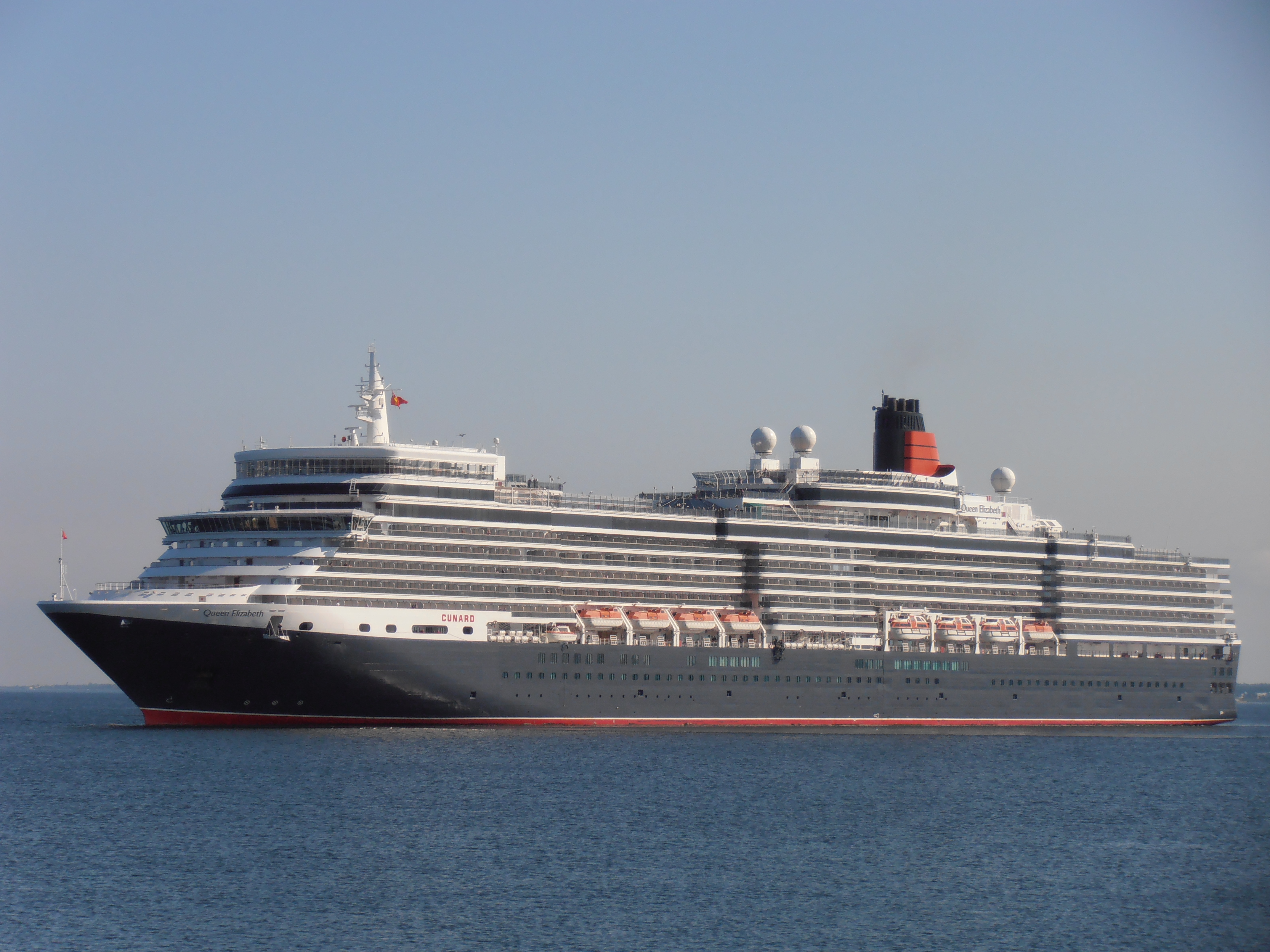 Hamilton Bermuda' Queen Elizabeth arriving Port of Tallinn 10 June 2012